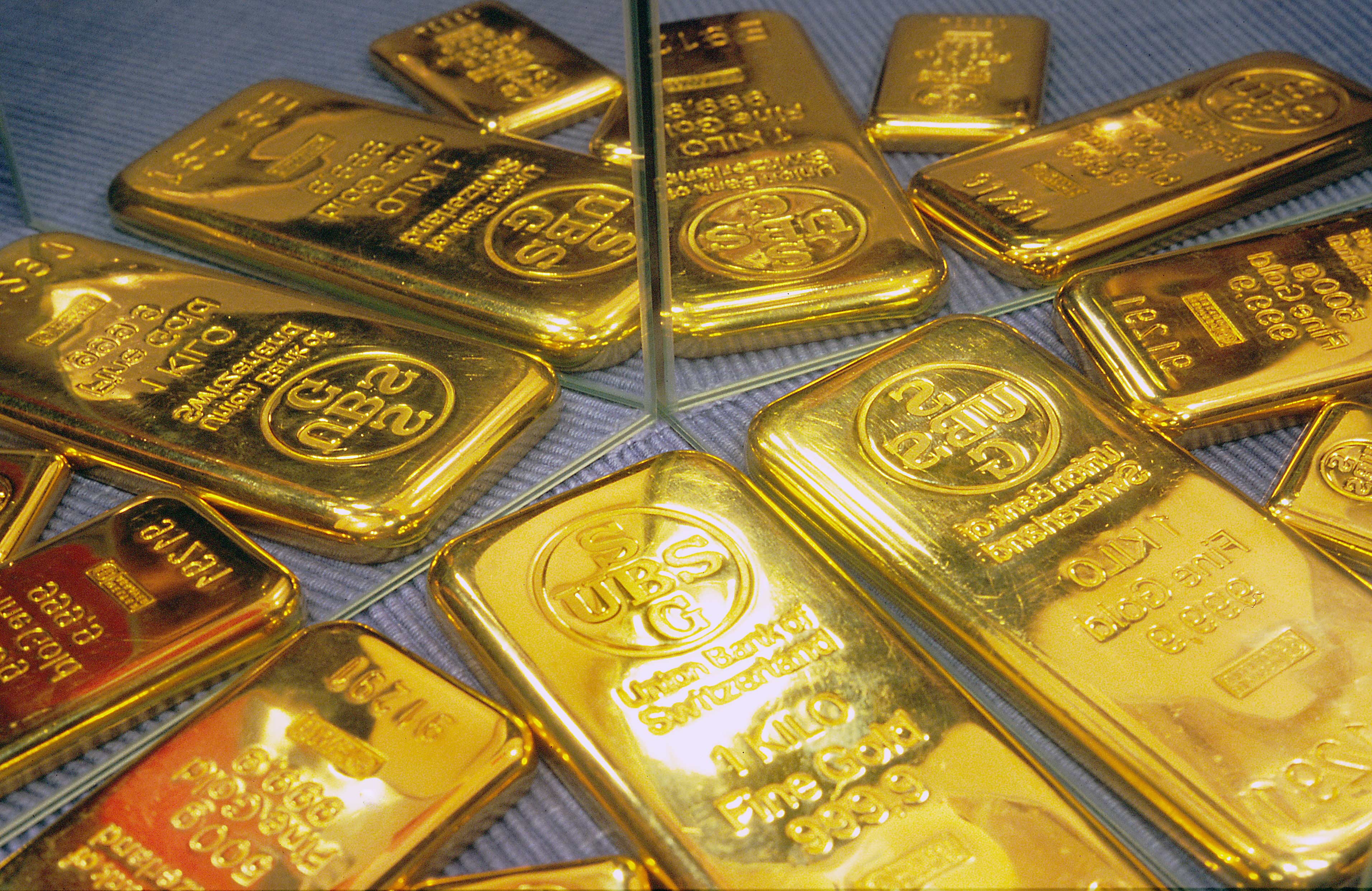 Union Bank of Switzerland gold bars "multiplied" by mirrors.